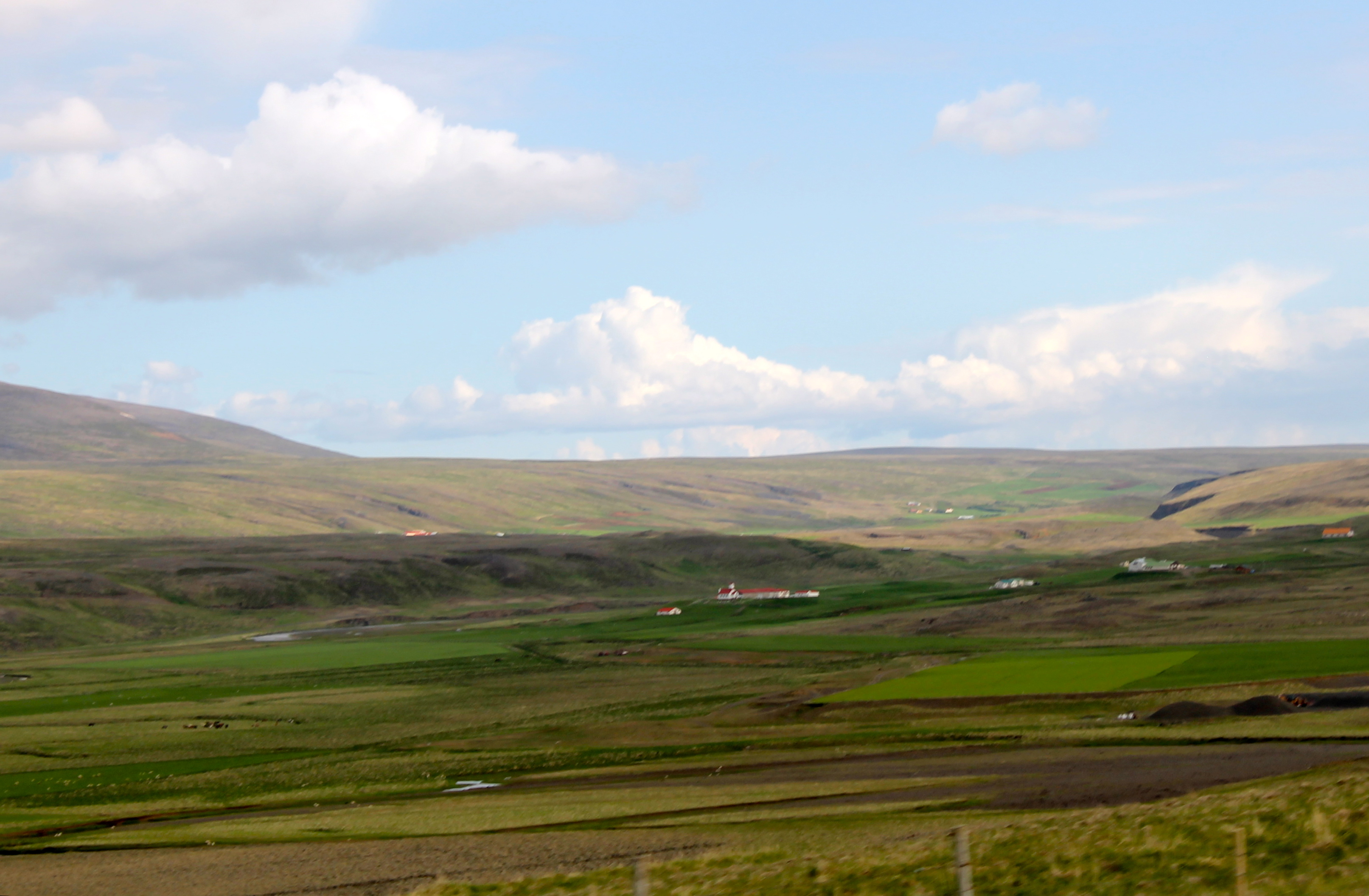 Víðidalstunga farm and church, Víðidalur, Northern Iceland.